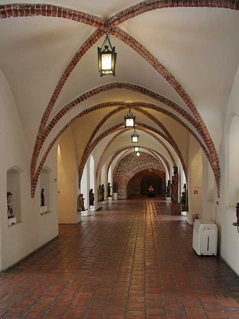 Toruń, Town Hall of the Old Town, ground floor of the east wing